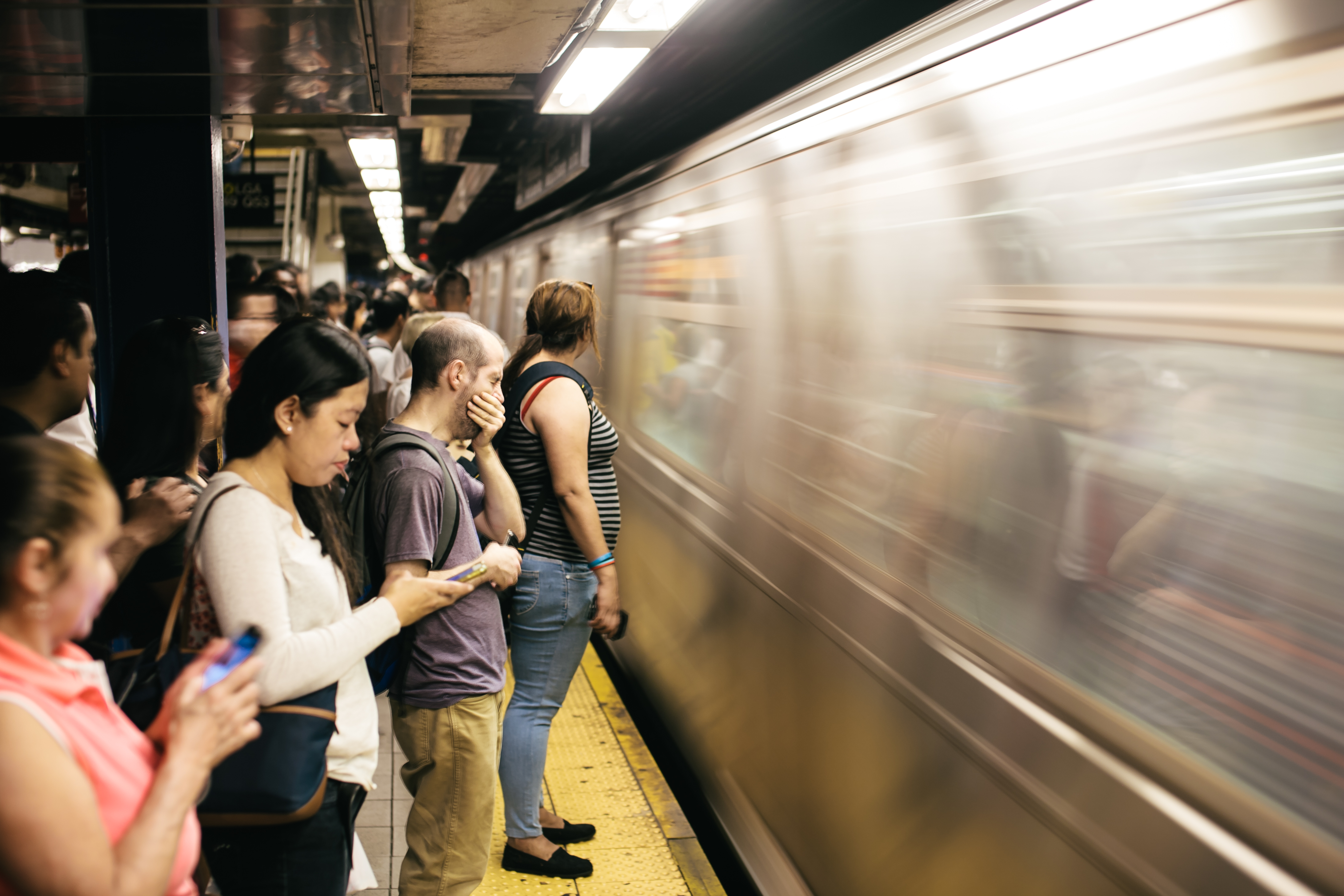 1/5th second exposure taken on the Roosevelt Avenue / 74th Street station during morning rush hour.